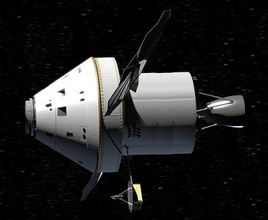 orion spacecraft in space